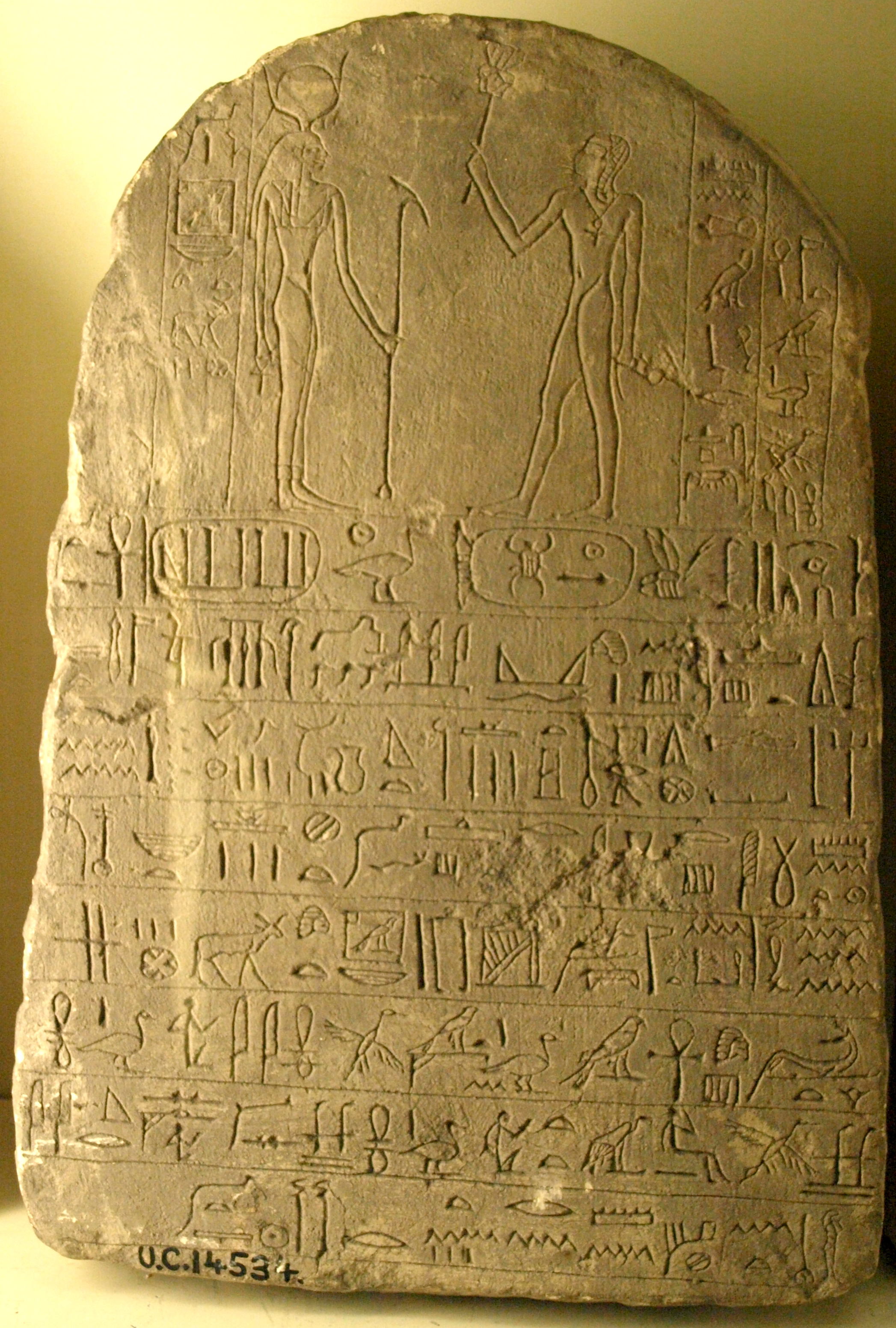 Limestone stele of Ankhhor son of Pimay son of Pasherienmut son of Nesmin. The stela is dated in regnal Year 22 of pharaoh Shoshenq V of the 22nd Dynasty and depict the deceased Ankhhor with the goddess Hathor. Probably from Atfih. Petrie Museum, UC 14534. [ref: Peet, 1920. "A stela of the reign of Sheshonk IV", JEA 6:56-57]